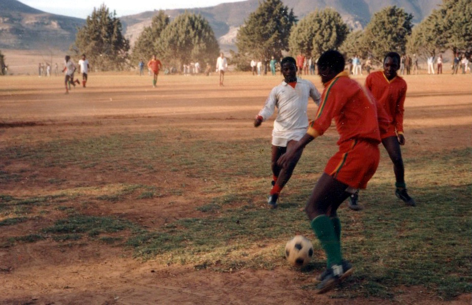 Soccer game Roma Rovers (in red) vs ? (National Premier League) in Roma, Lesotho